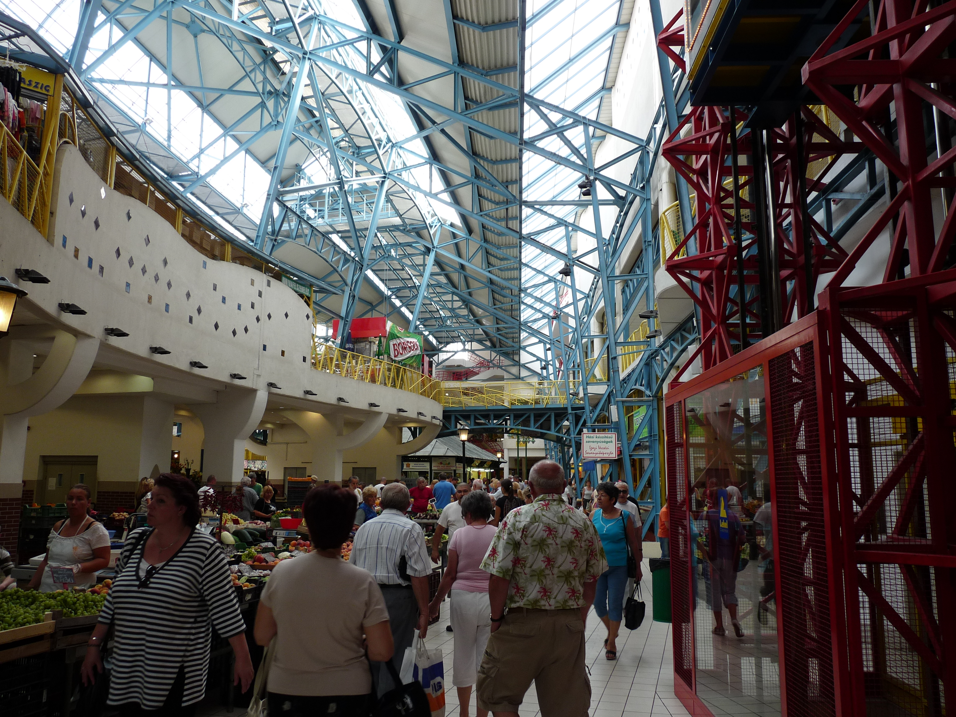 Lehel Csarnok ground floor